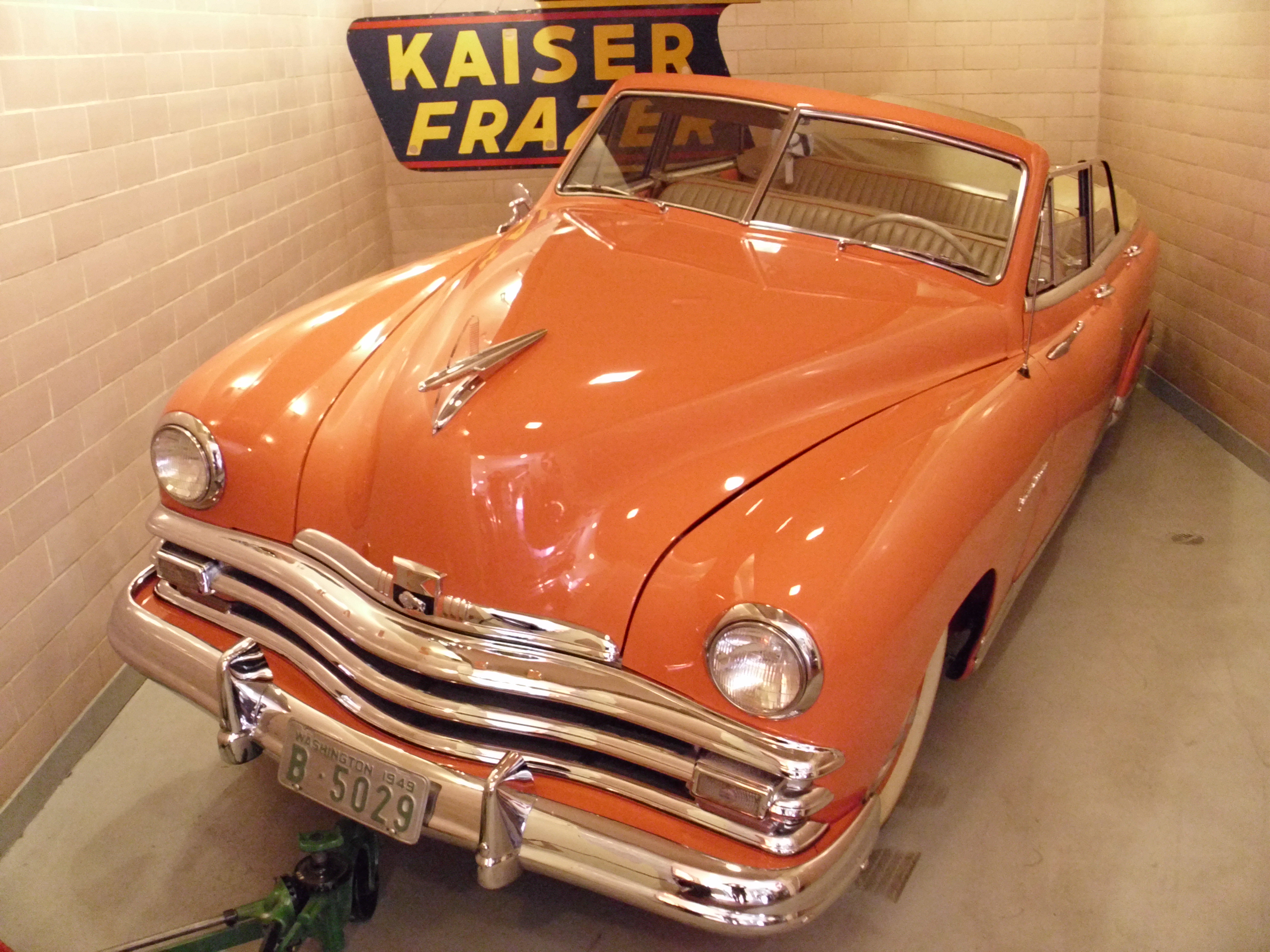 What do you do when you have a small room with no windows? Put a nice Kaiser convertible in it! Seen at the LeMay Open House at the Marymount campus. This room is just off the gym, so maybe it was a locker room.